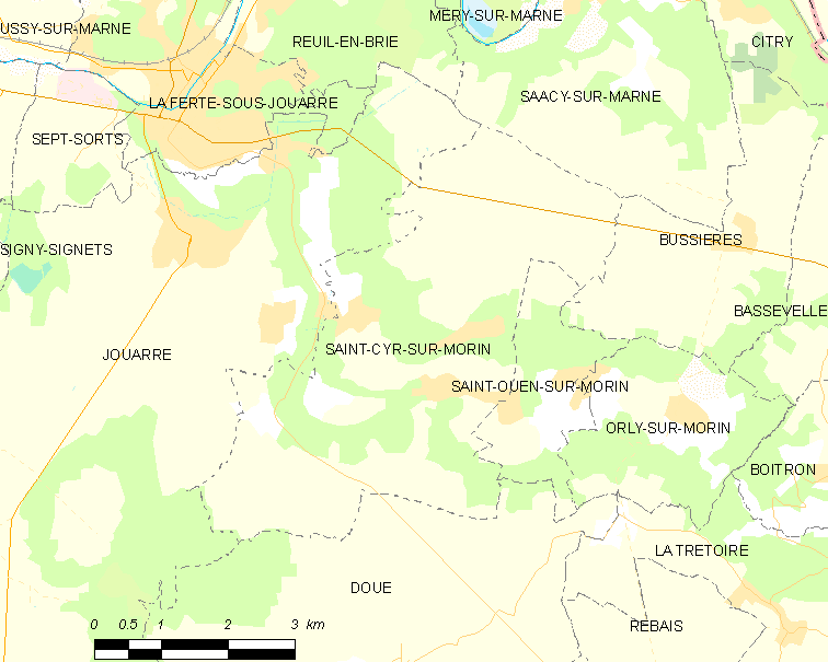 Map of French municipality Saint-Cyr-sur-Morin